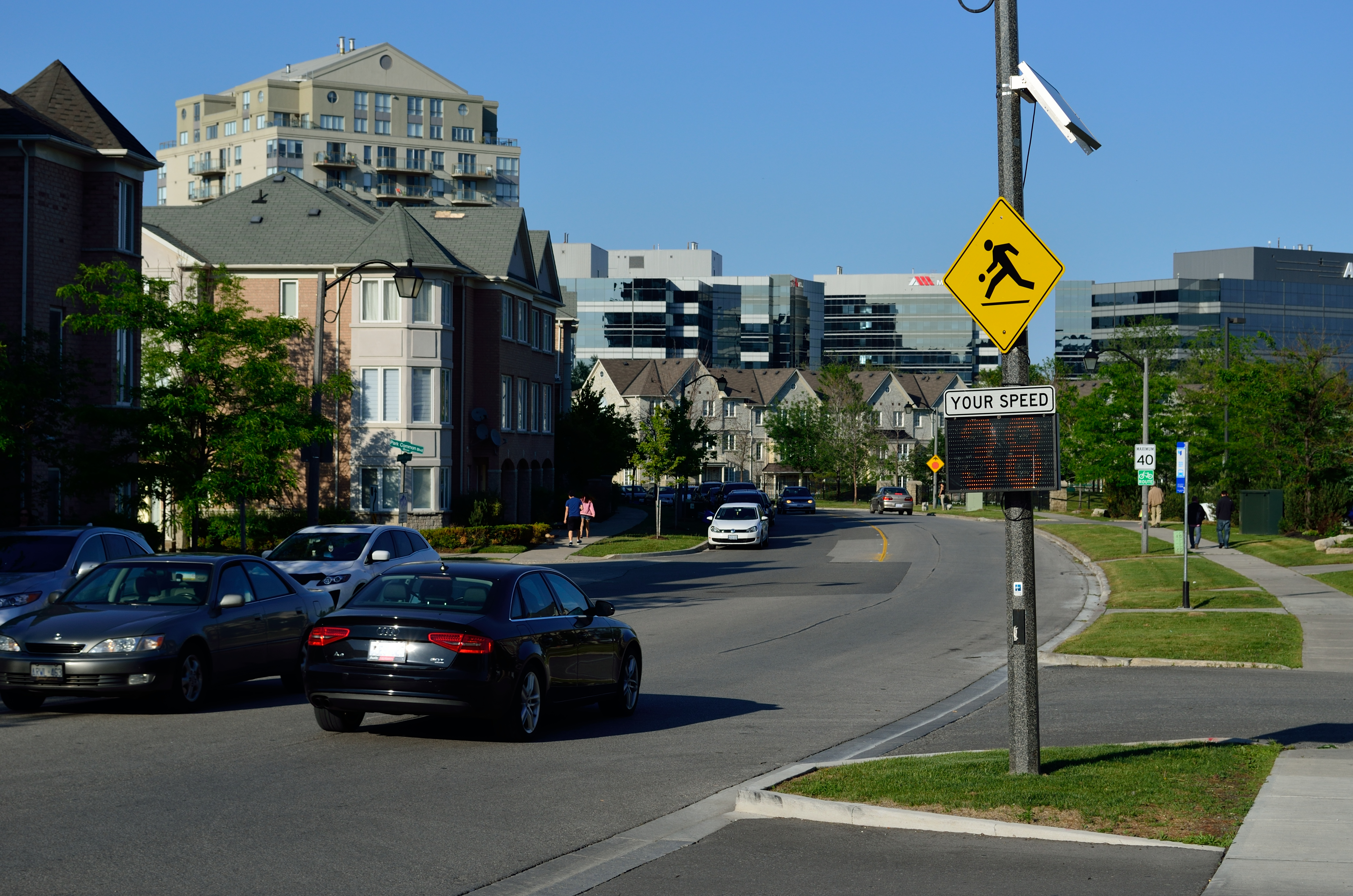 Speed feedback road sign at South Park Road in the Markham portion of Thornhill. Facing east at Park Common Boulevard.